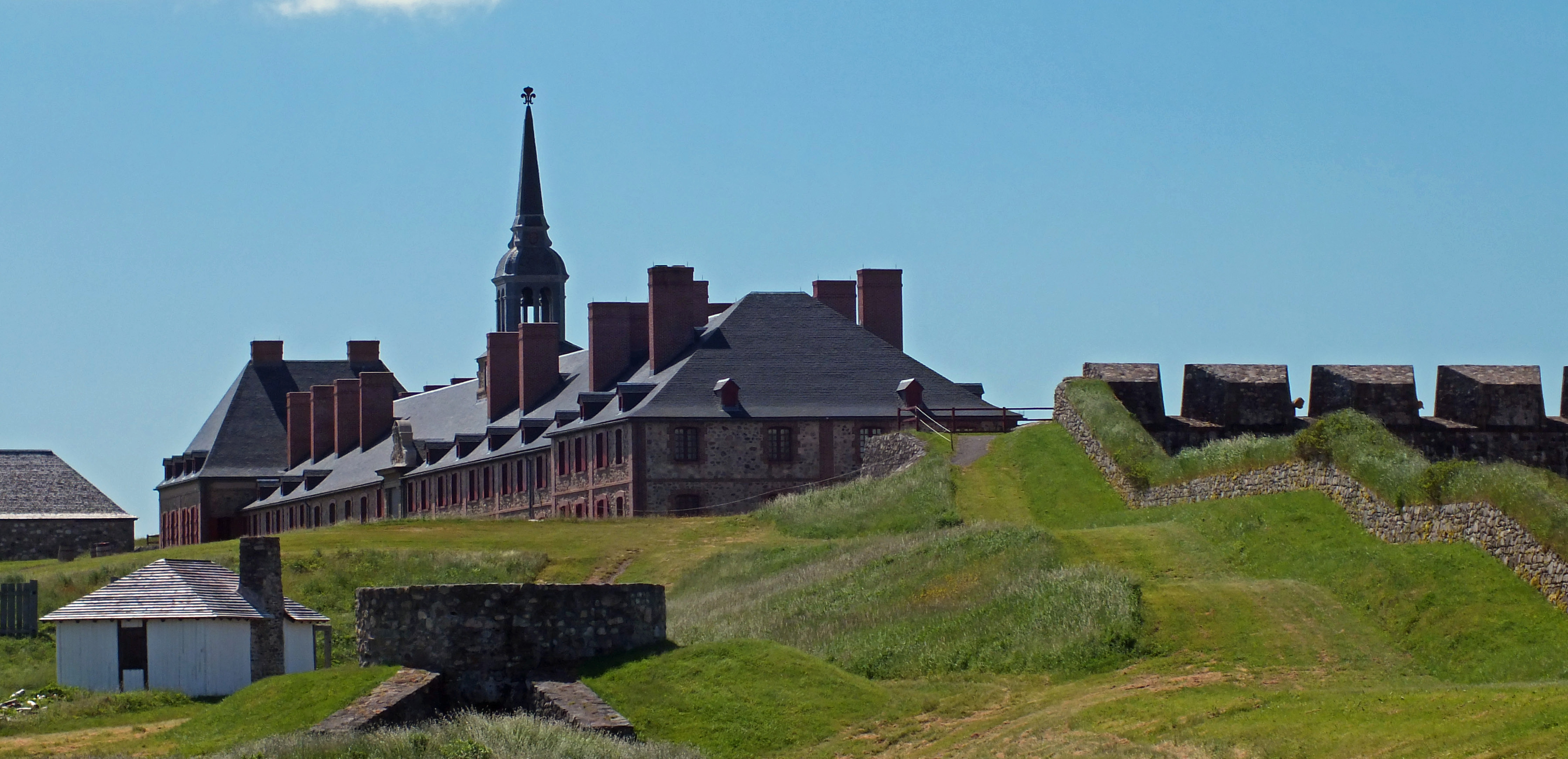 Fortress of Louisbourg National Historic Site of Canada